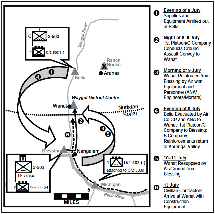 Description of ROCK MOVE, an operation designed to complete move from COP Bella, and begin the move to a new outpost in Wanat in Afghanistan in 2008. The move was a prelude to the Battle of Wanat.